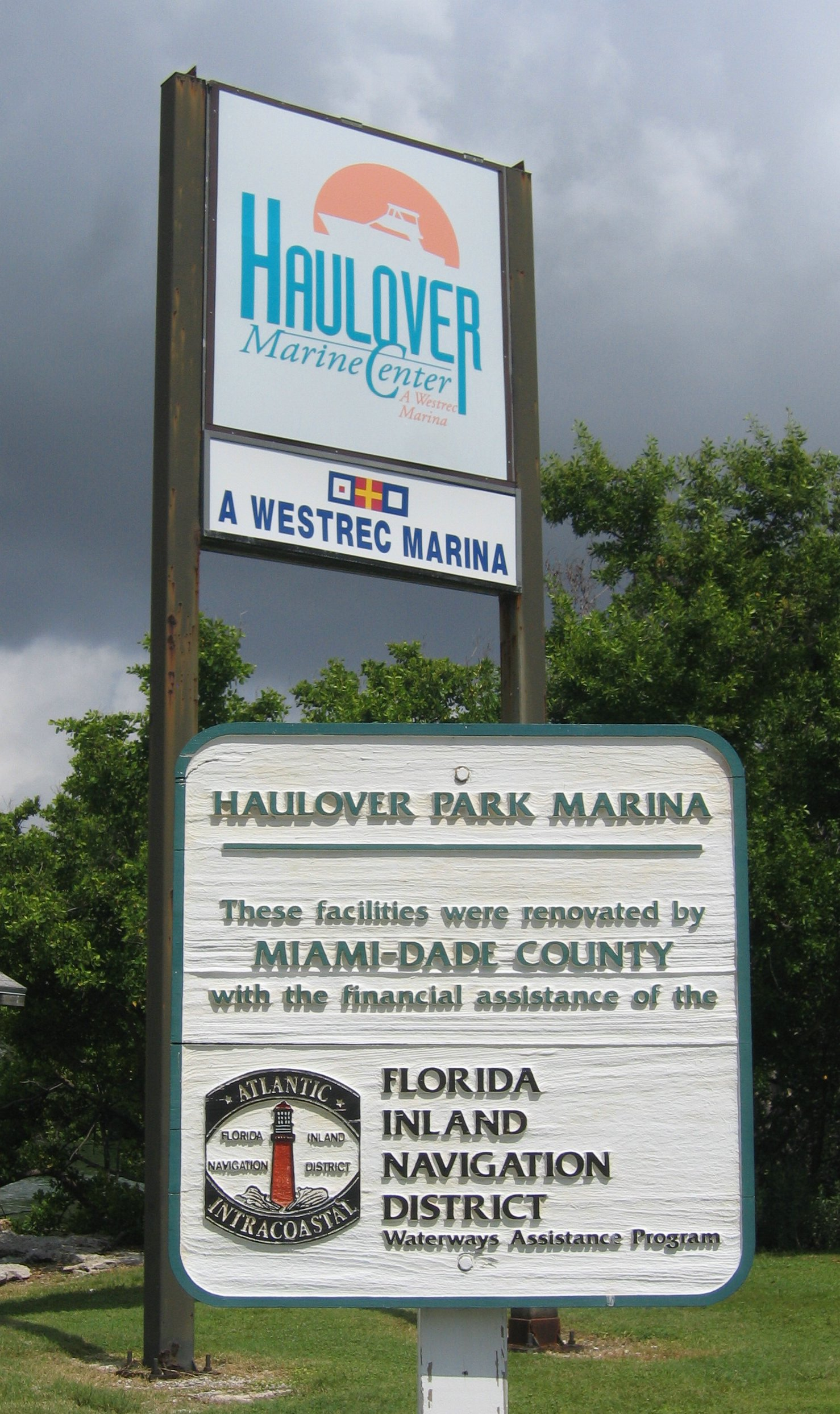 An image of the Baker's Haulover Park Marina sign. I figured it would be good to show a decent sign and something other than the inlet in the article as the park is of a reasonable size. --Douglas Whitaker| 03:27, 18 August 2006 (UTC) Category:Images of Florida Summary An image of the Baker's Haulover Park Marina sign. I figured it would be good to show a decent sign and something other than the inlet in the article as the park is of a reasonable size. --Douglas Whitaker 03:27, 18 August 2006 (UTC)